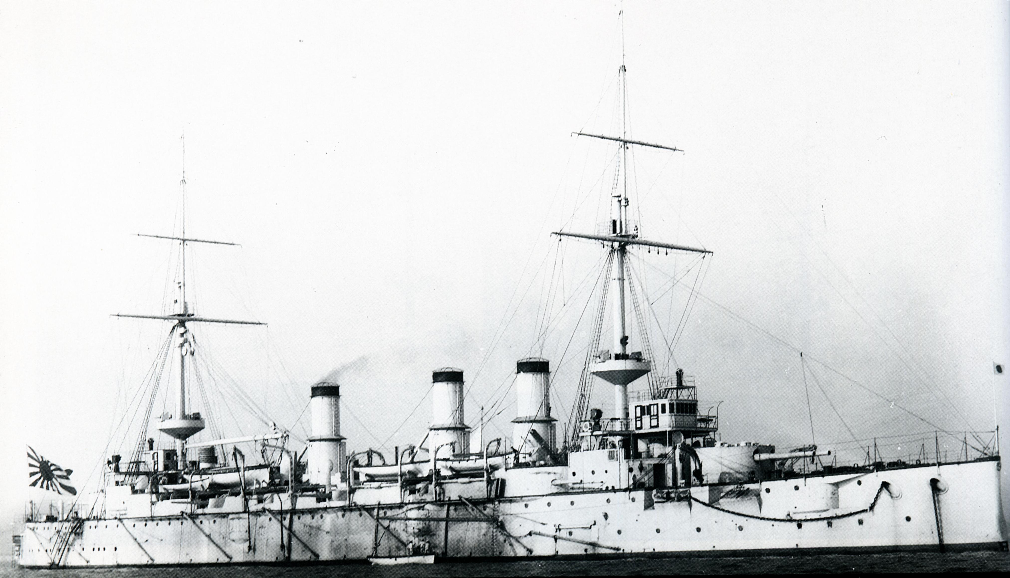 IJN Azuma at Portsmounth